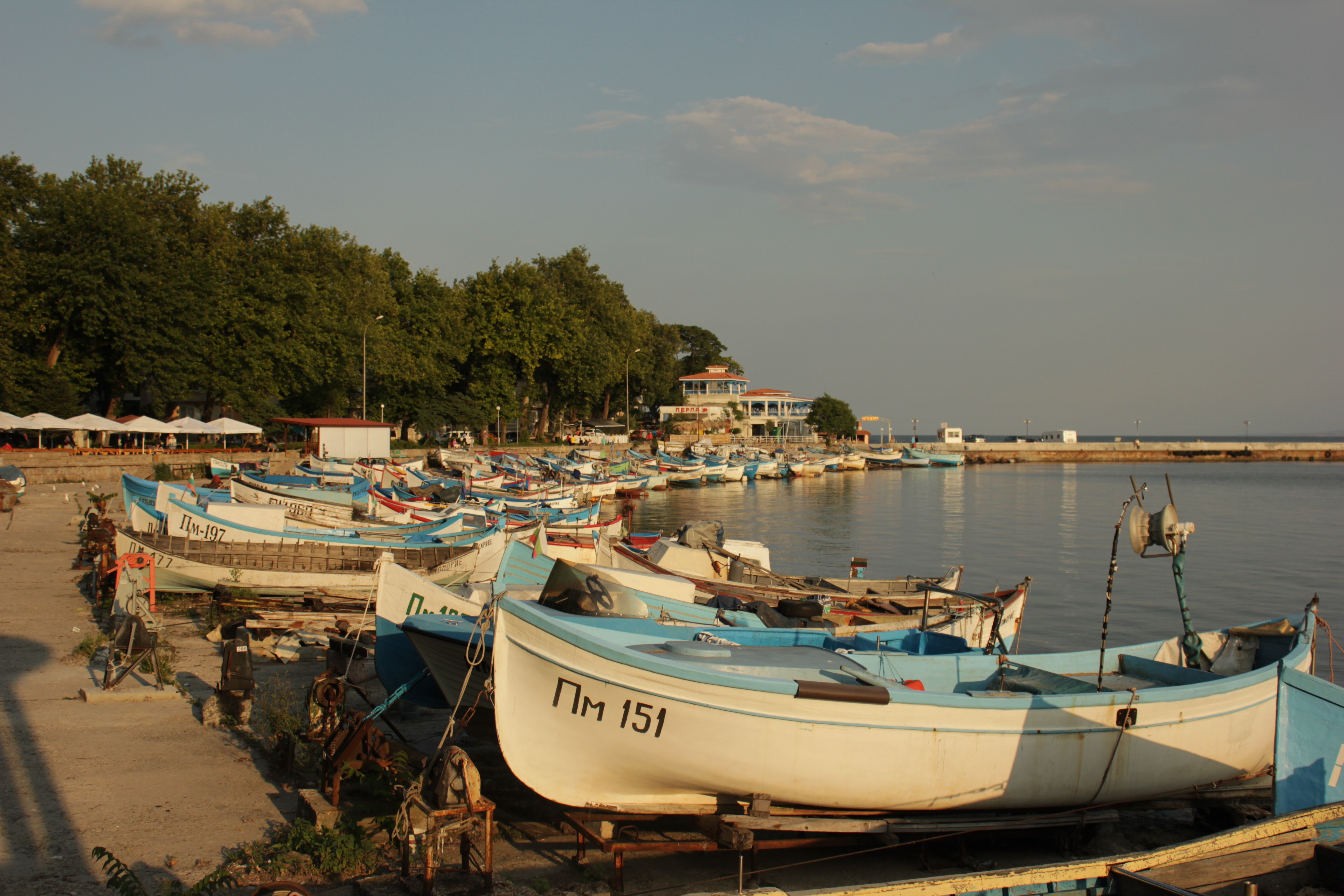 Pomorie pier